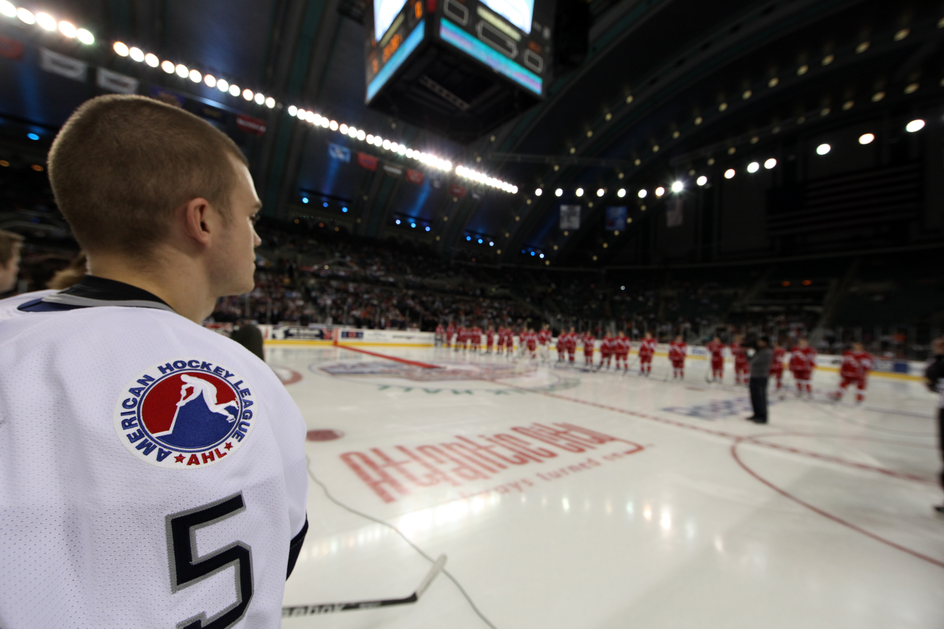 PhotoGraphics Photography/AHL American Hockey League (AHL) All-Star Game Taken on January 30, 2012 using a Canon EOS-1D Mark IV. Boardwalk Hall - Atlantic City, NJ